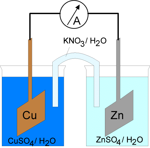 Electrochemical cell with salt bridge based in copper, copper sulfate, zinc, and zinc sulfate